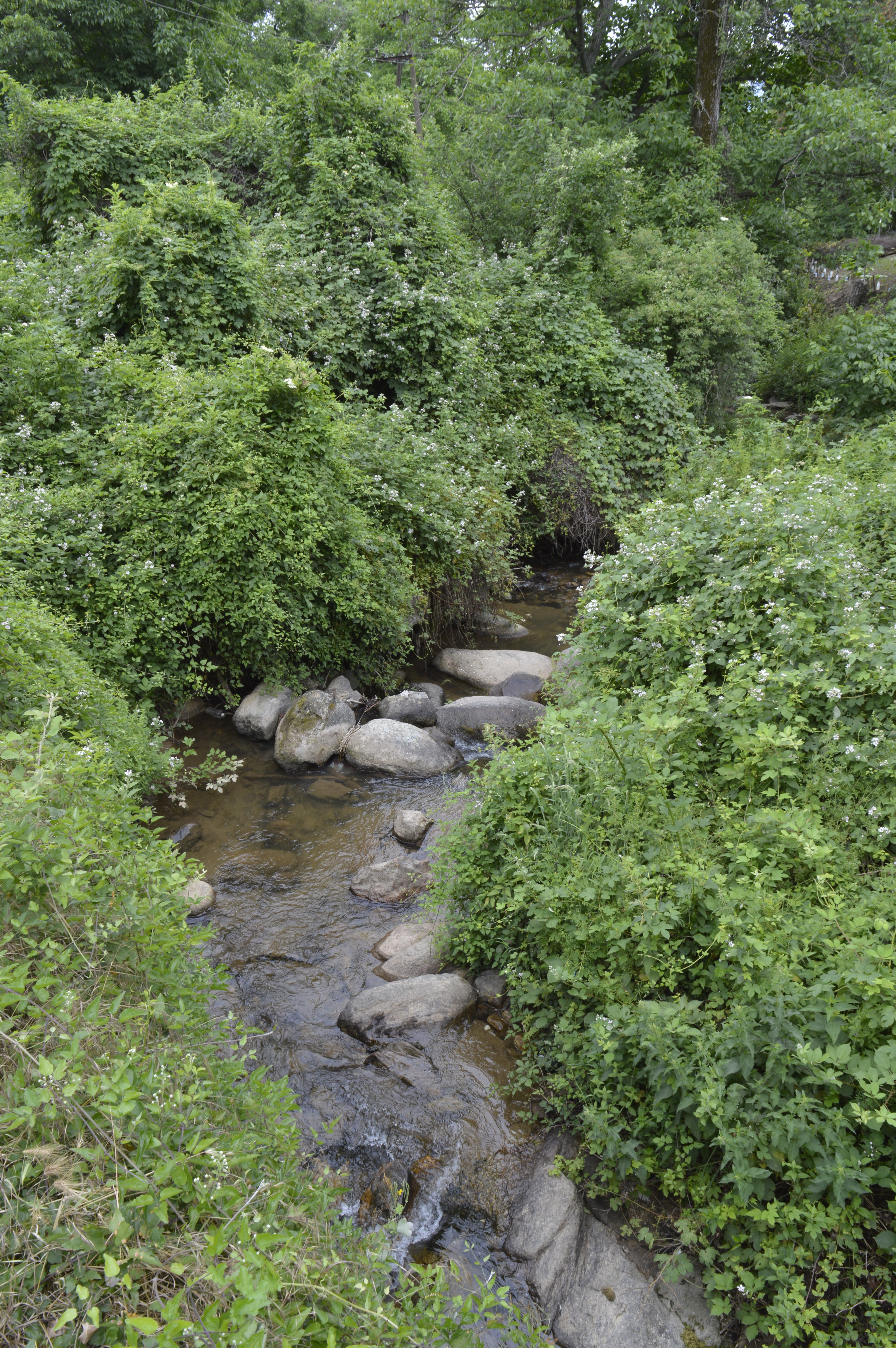 View of the Bistrica River